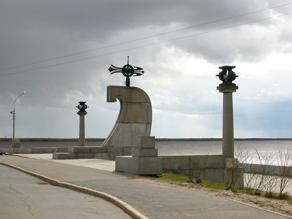 Arkhangelsk (Russia) Stela